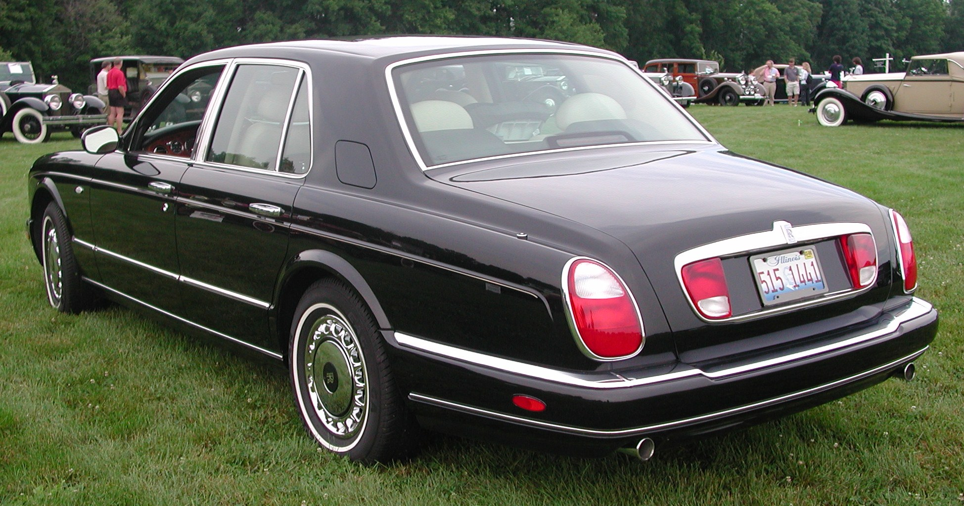 1999 Rolls-Royce Silver Seraph